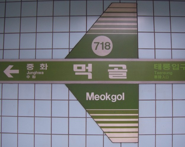 Meokgol Station